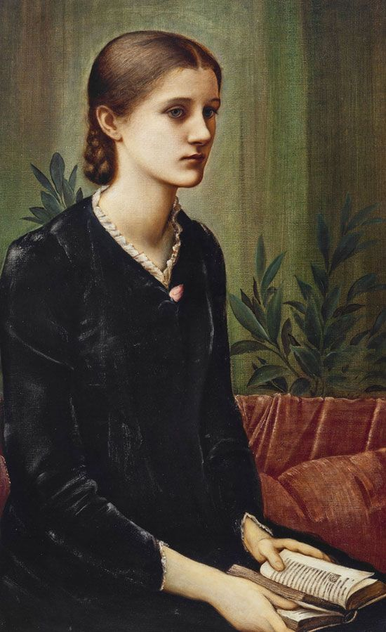 Portrait of Caroline Fitzgerald by Edward Burne-Jones, painted 1884. University of Toronto Art Centre.